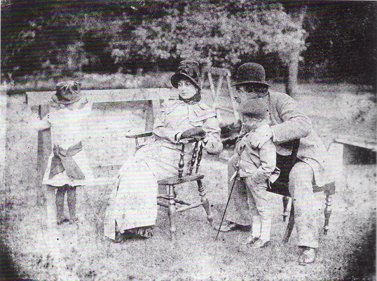 James Tissot, Kathleen Newton and her children Violet and Cecil